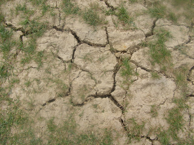 Parched/cracked earth in Bourne Woods. These cracks were noticed near the Ponds - after a few weeks without rain.